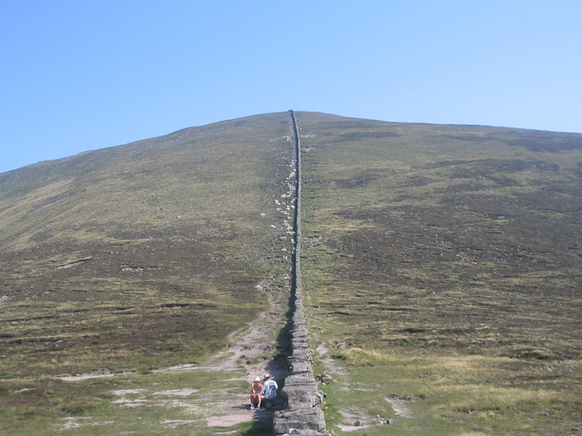 On the road to the Summit of Donard. Taken from the Saddle looking up the Mourne Wall to the summit of Slieve Donard.